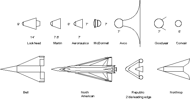 Proposals for the 1958 US manned space program Man In Space Soonest